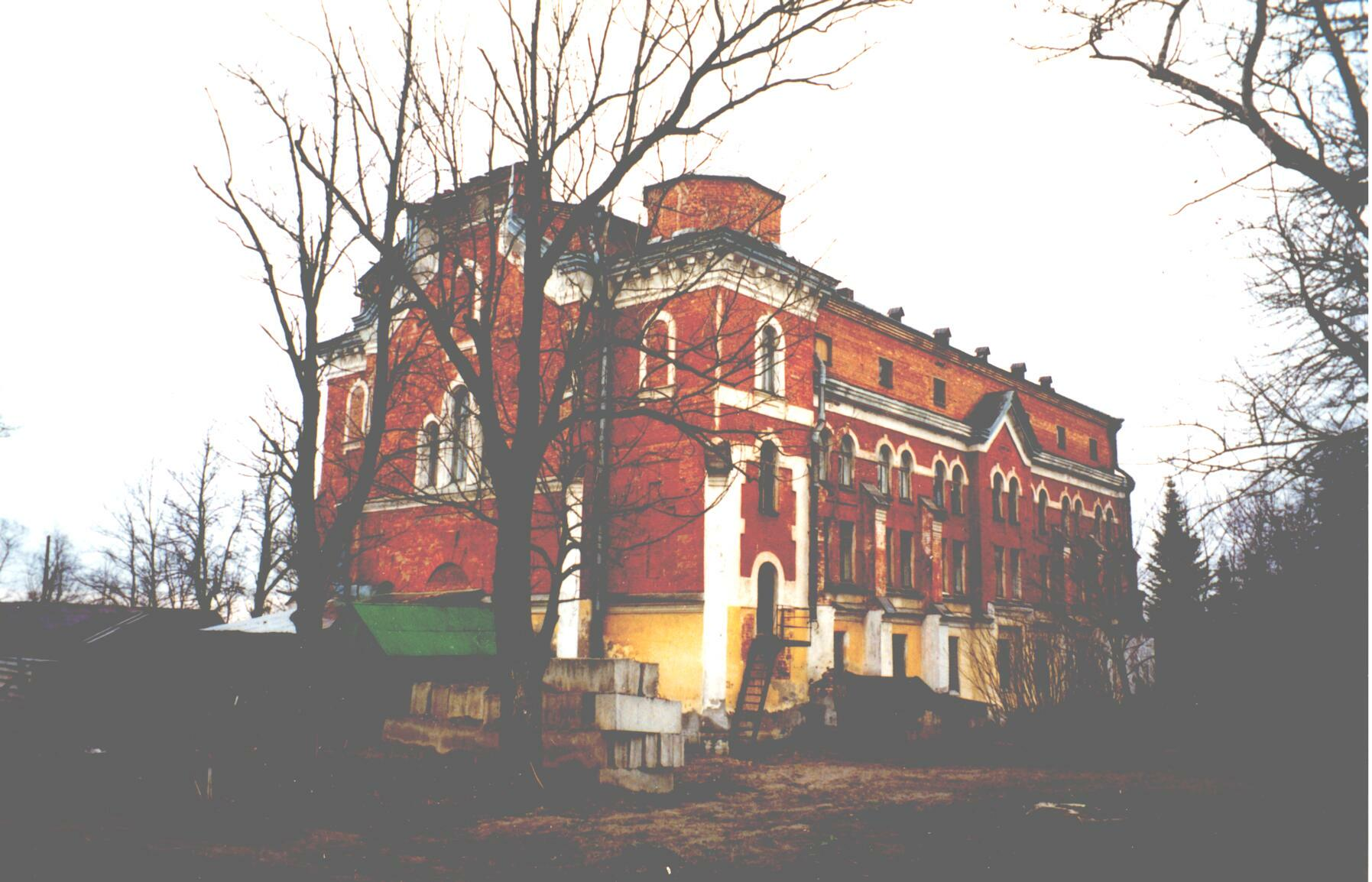 Pavlovsk (Russia)